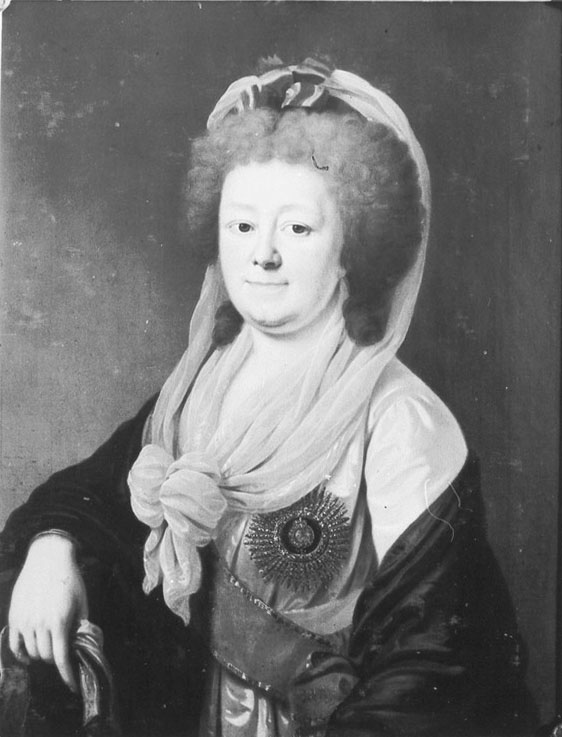 Portrait of Friederike Auguste Sophie of Anhalt-Bernburg (1744-1827), wife of Frederick Augustus, Prince of Anhalt-Zerbst brother of Catherine II of Russia